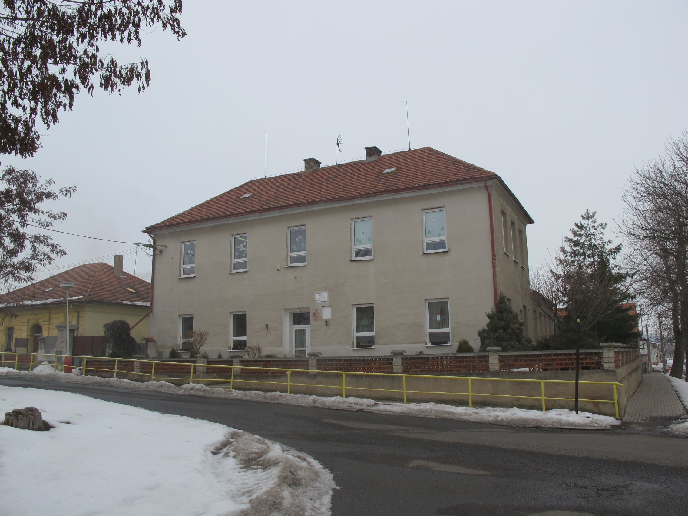 School in Koštice